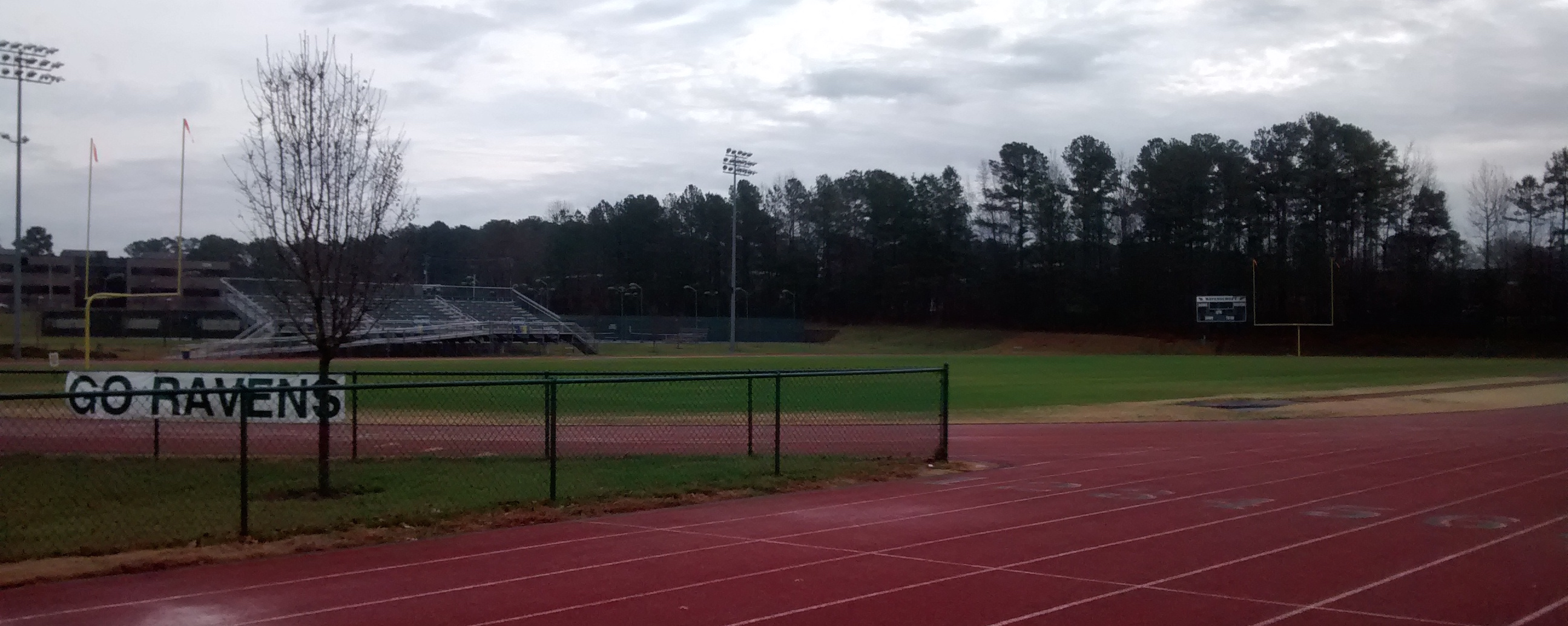 The track and football field at Ravenscroft School in Raleigh, North Carolina.